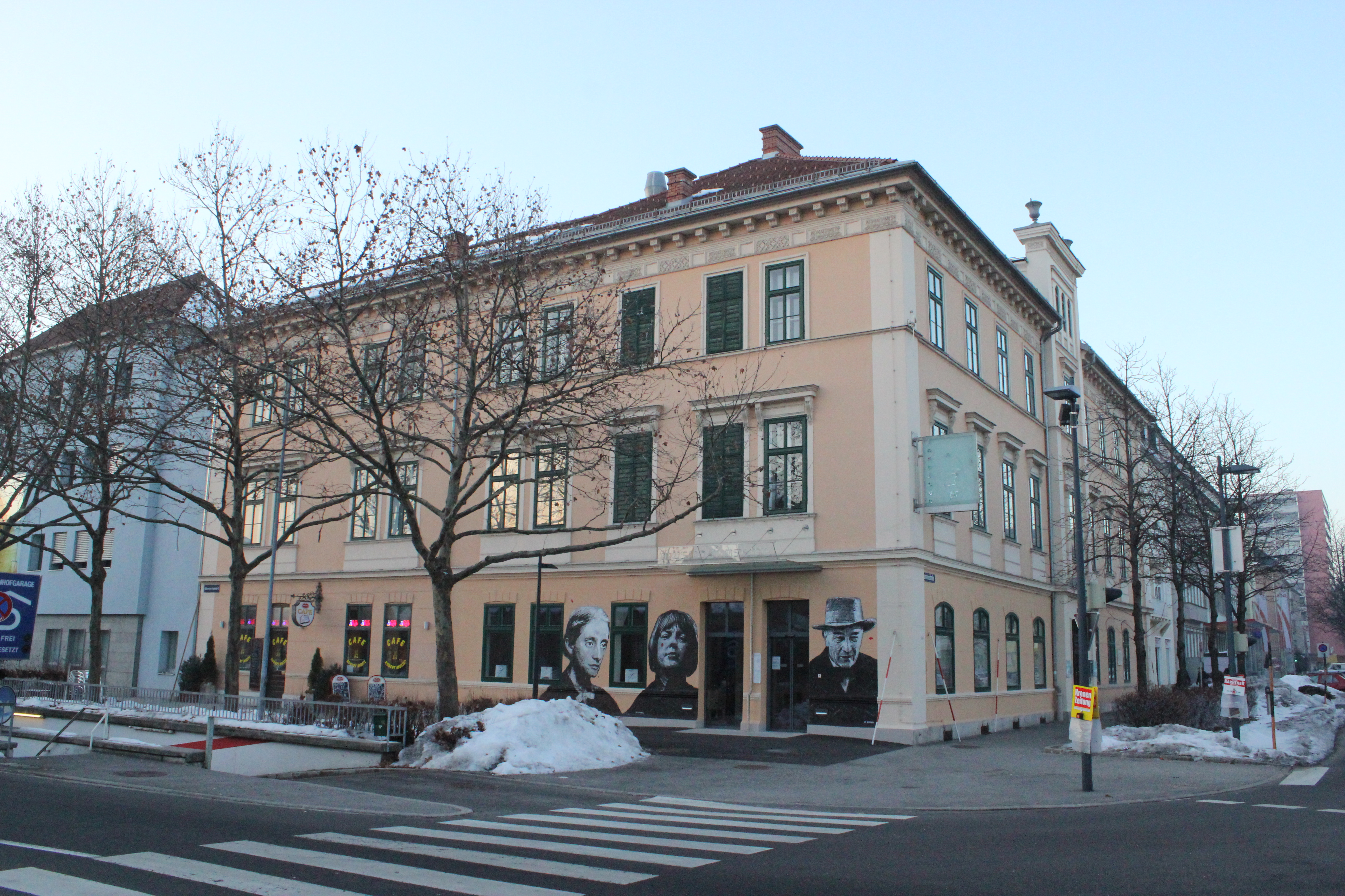 Robert Musil Museum in Klagenfurt